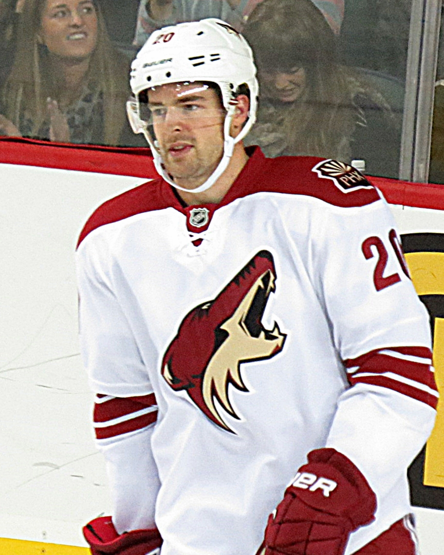 Summers with the Phoenix Coyotes during the 2013-14 season.